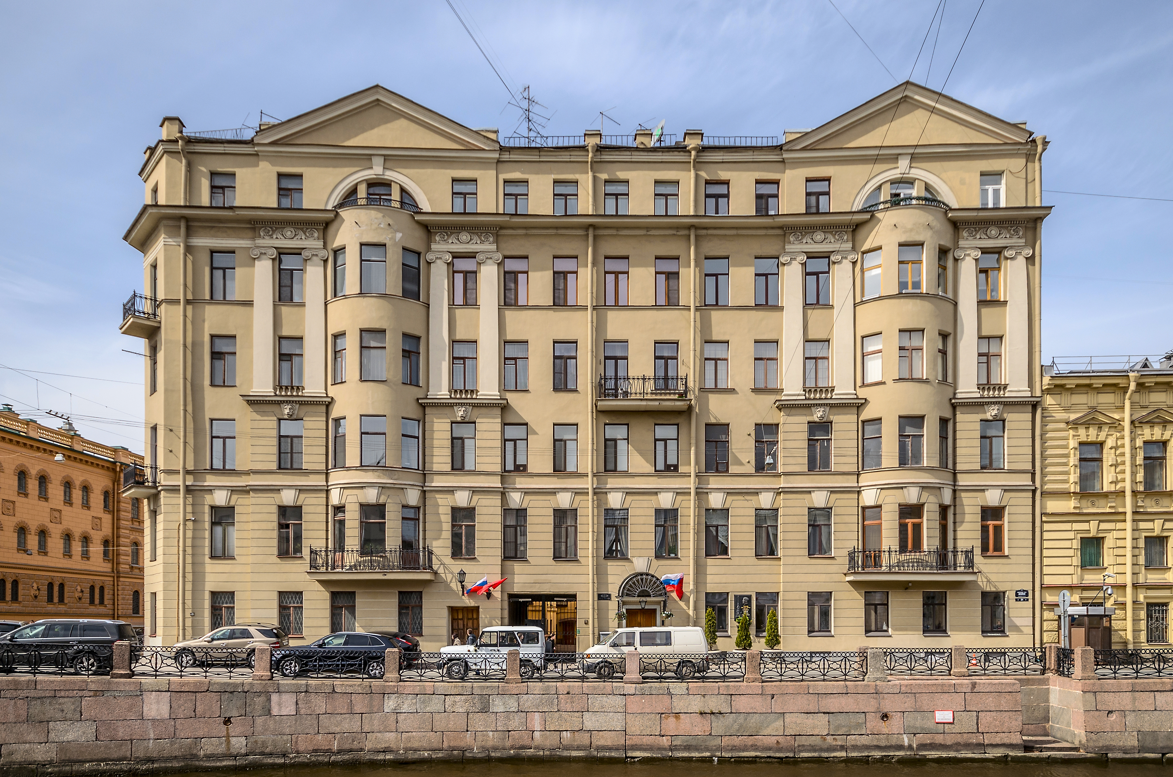 Moyka River Embankment in Saint Petersburg